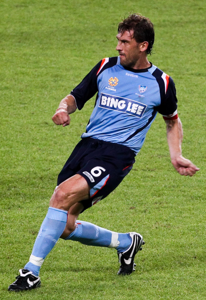 Tony Popovic playing for Sydney FC against the Wellington Phoenix in round 11 of the 08/09 A-League.